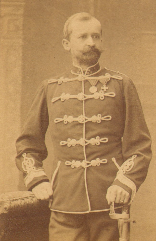 Photograph of Svetozar Manojlović (1848-1909), major of the Austro-Hungarian army, poet and translator (Vienna, 1888). Srpski (latinica): Fotografija Svetozara Manojlovića (1848-1909), majora austrougarske vojske, pesnika i prevodioca (Beč, 1888).